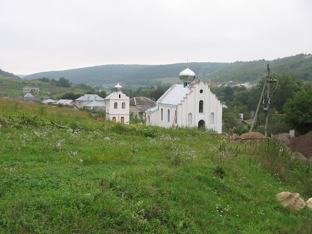 Ukrainian Orthodox Church in village Lopushnya, Rohatyn district, Ivano-Frankivsk region, western Ukraine.